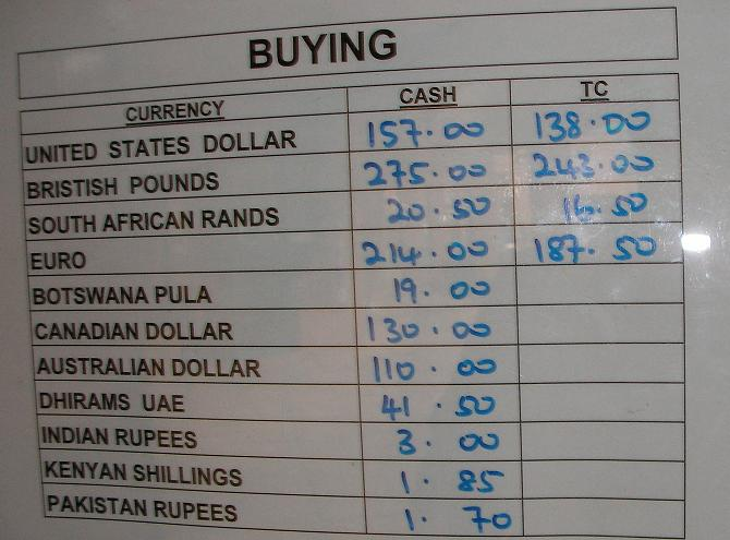 Exchange rates for Malawi Kwacha posted by a currency trader in Lilongwe on October 7, 2008.